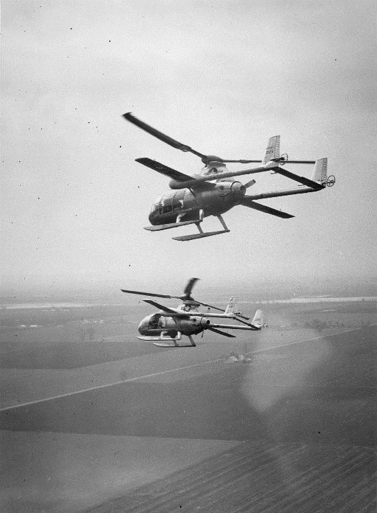 The two McDonnell XV-1 convertiplanes during a test flight in the mid 1950s.